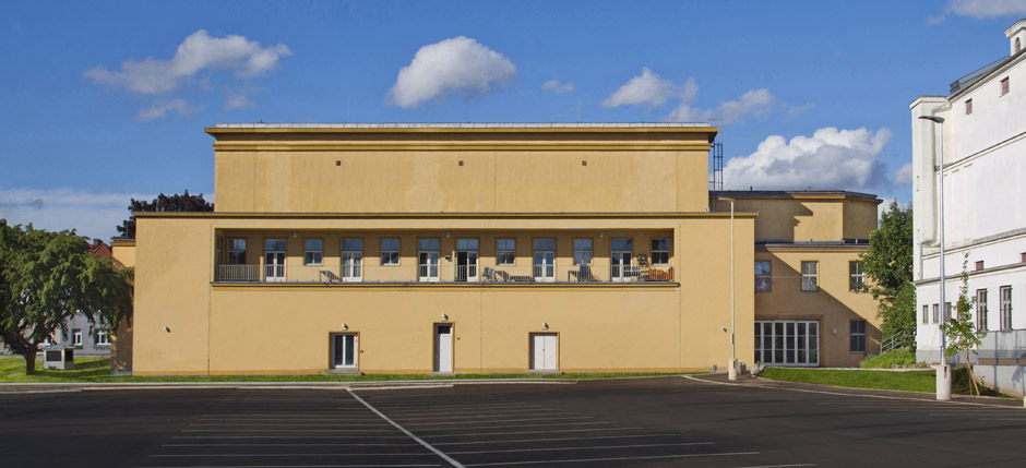 Studiogebäude am Rosenhügel in Wien.